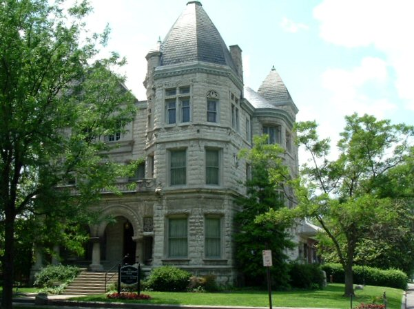 Picture of the Conrad Historic Home on St James Court, Old Louisville KY. Taken by Jeffrey B. Morris on May 26, 2006, the year of the dog. All rights released